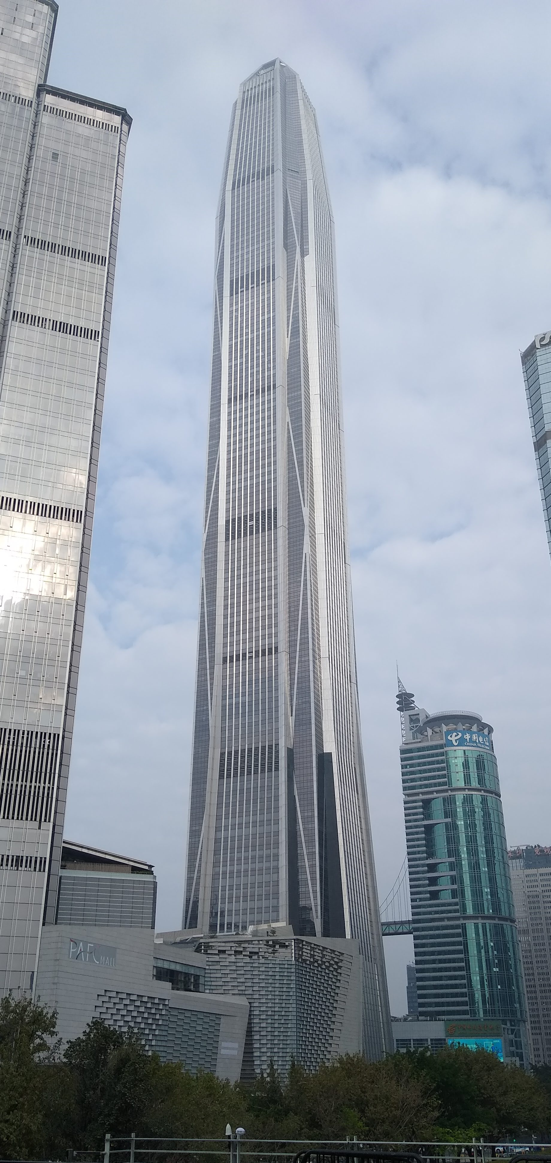 The Ping An Finance Center in Shenzhen, China.